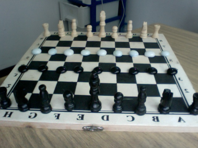 A game of Cambodian chess set up using a Western chess set.